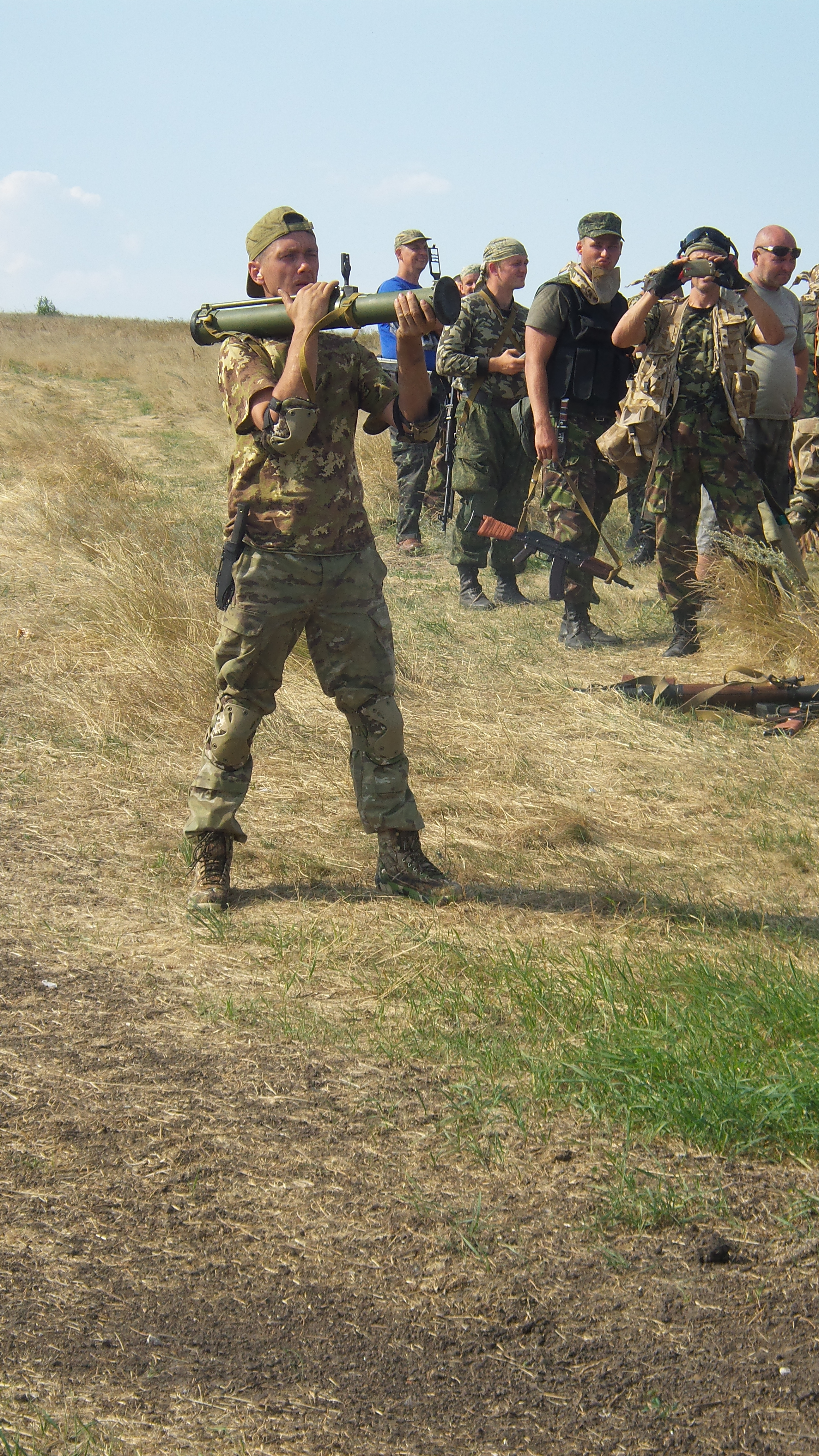 Aidar Battalion. Lugansk region, Ukraine.